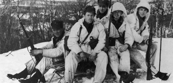 Group of Norwegian soldiers on the front-line north of Narvik, armed with Krag-Jørgensen rifles